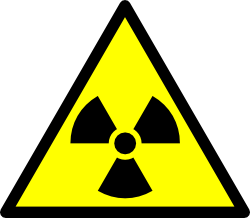 Symbol of radioactivity.